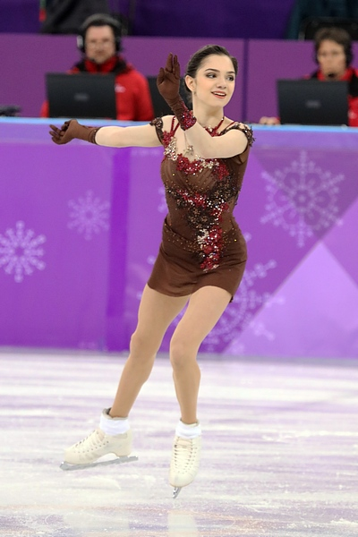 Evgenia Medvedeva at the 2018 Winter Olympic Games - Free program